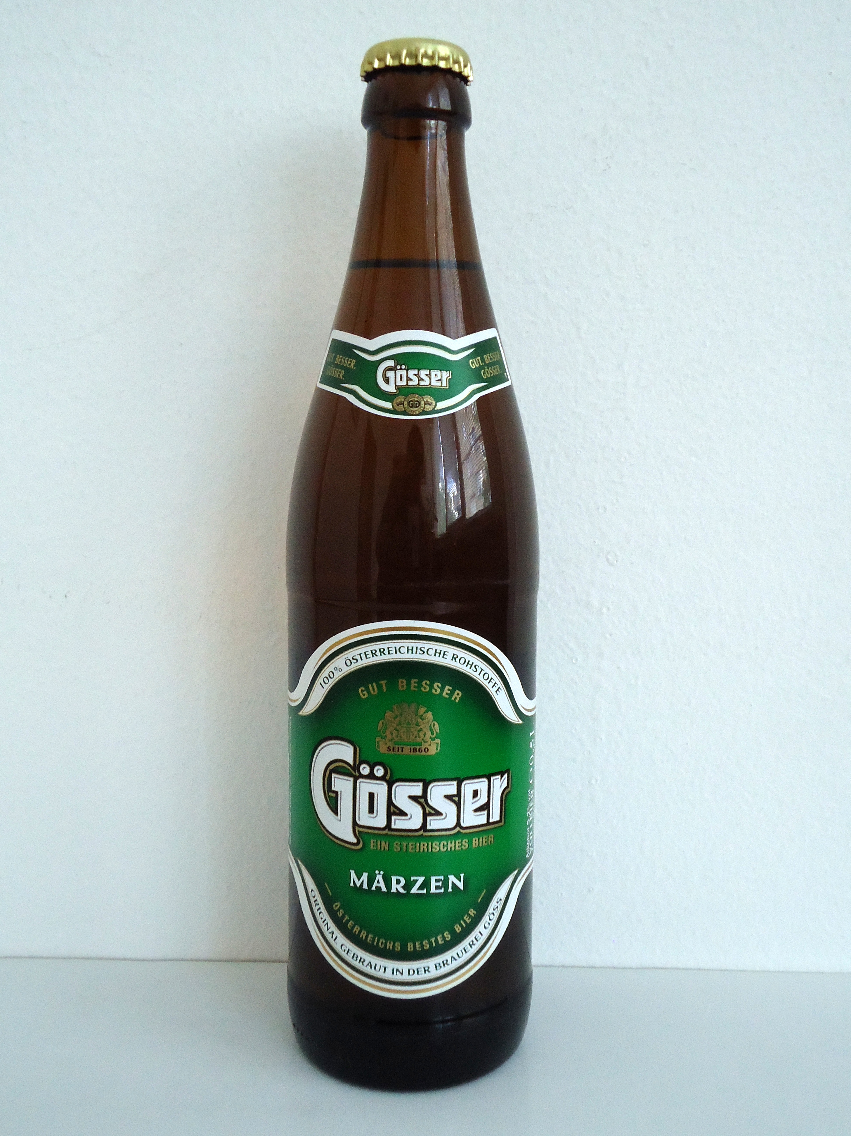 Gösser Märzen beer